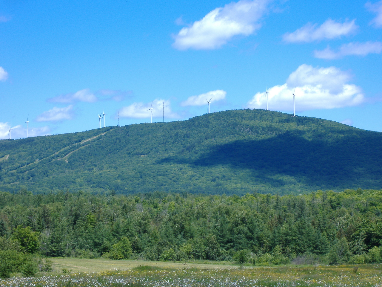 The Mars Hill Wind Farm atop Mars Hill (Maine) has 28 GE Energy 1.5 MW wind turbines.